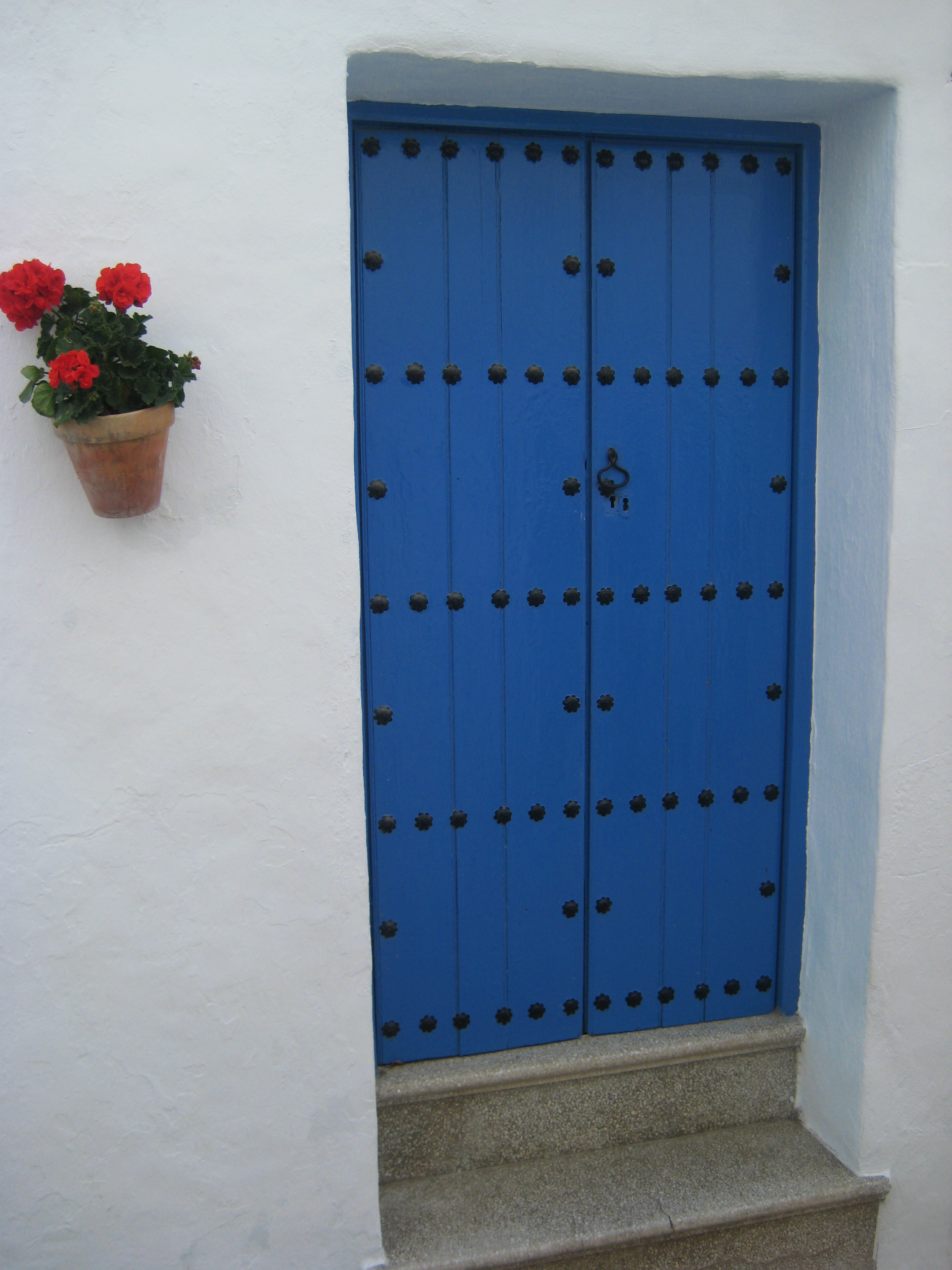 Door in Frigiliana, Málaga, Spain